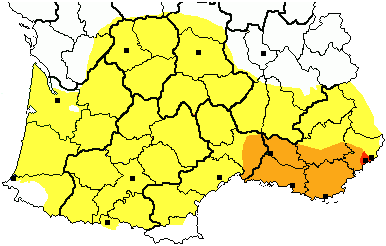 Provençal and Nissart dialects among the Occitan language